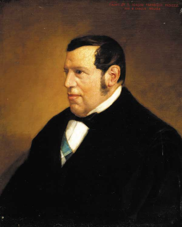 Joaquín Francisco Pacheco.